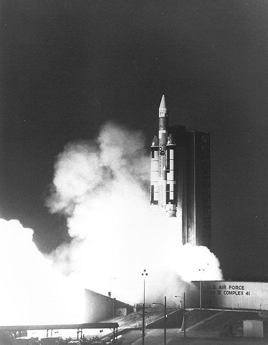 TITAN IIIC IDCSP SATELLITE MISSION FROM PAD 41 - 18 January 1967